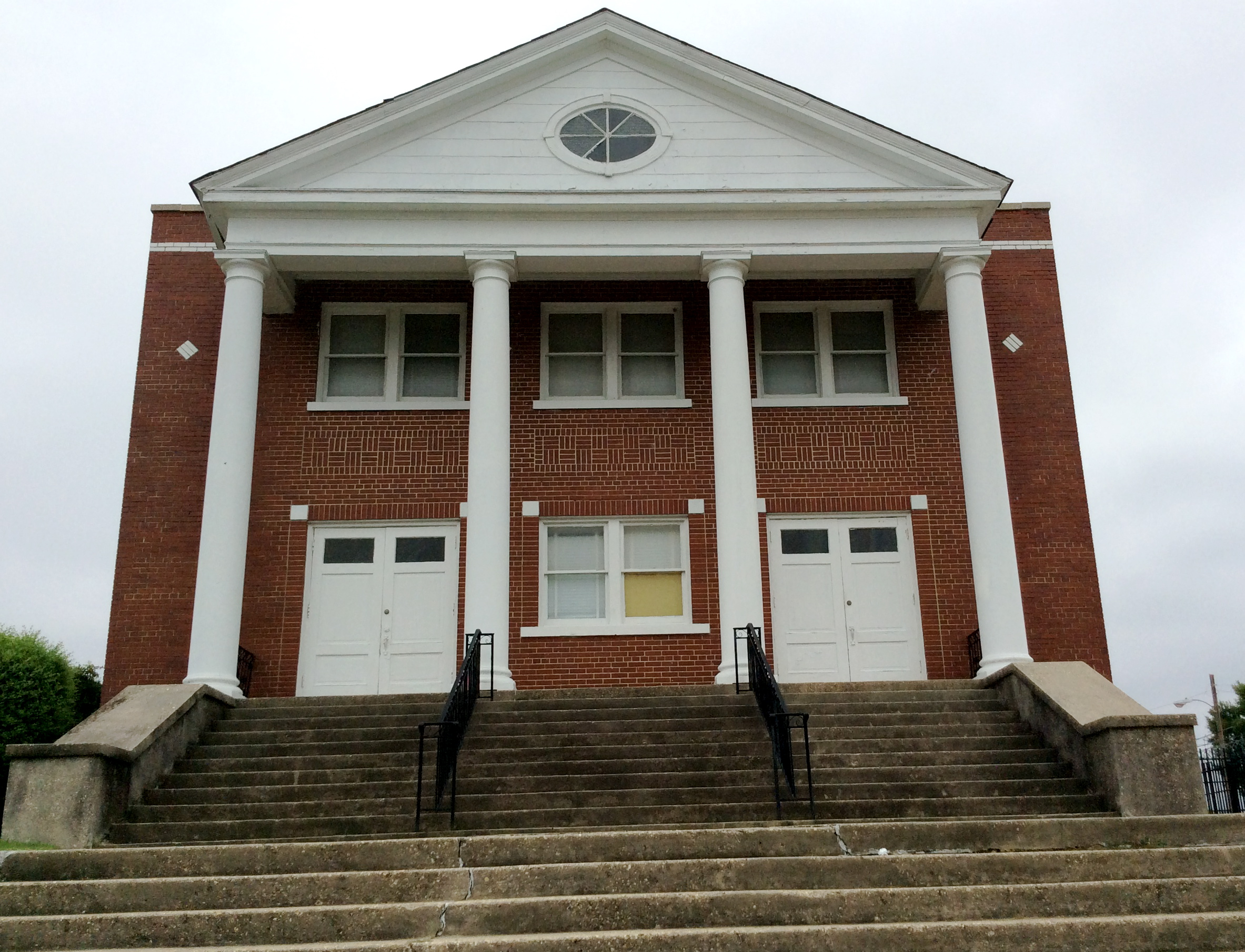 First Baptist Church Lauderdale, also known as First Baptist Beale, was the first African-American baptist church in Memphis, TN.